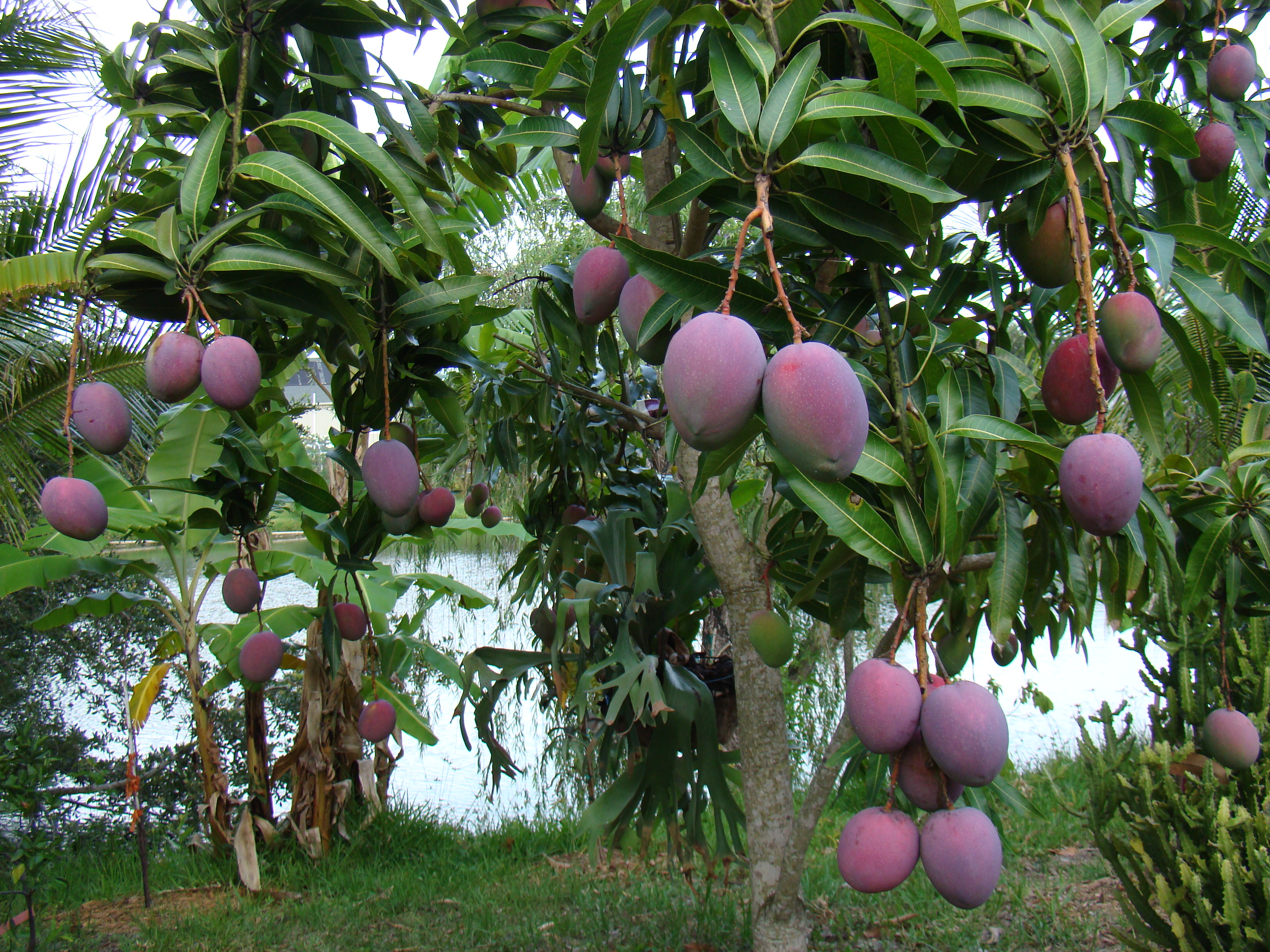 A tree full of unripe Tommy Atkins mangoes in Ghosh Grove in Rockledge, Florida.